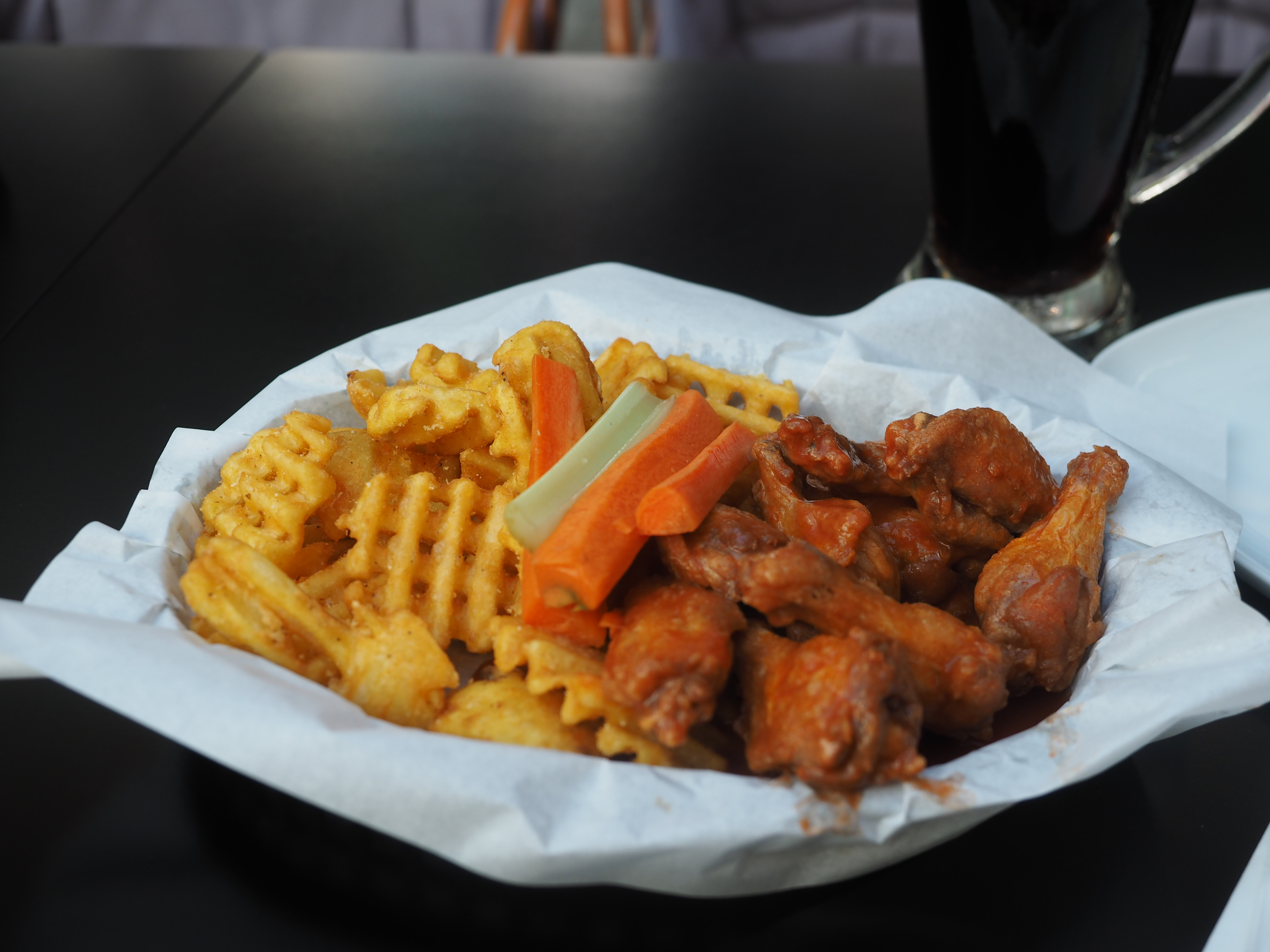 A restaurant dish consisting of ten chicken wings in "X-Hot" sauce, deep-fried potato slices and carrot and celery sticks, served at restaurant Siipiweikot at the Iso Omena shopping centre in Matinkylä, Espoo, Finland.